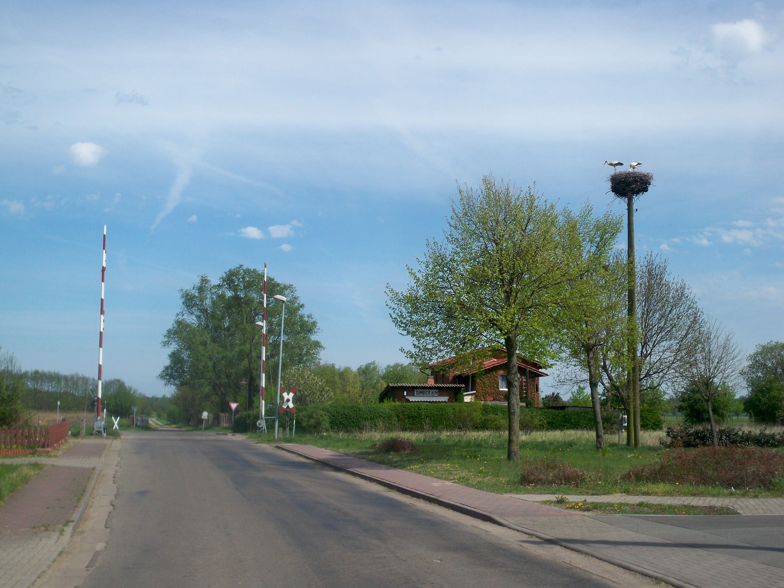 Dambeck, Salzwedel, Saxony-Anhalt, disused railway station